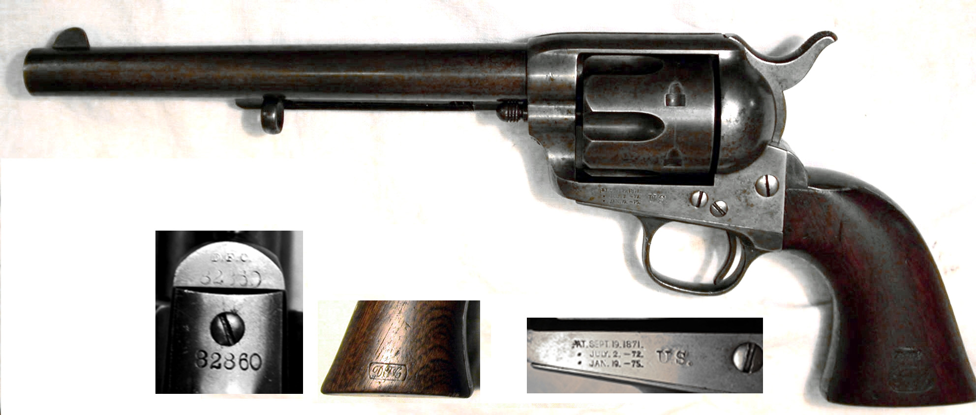 Colt Single Action Army 1873, U.S.Cavalry DFC inspected